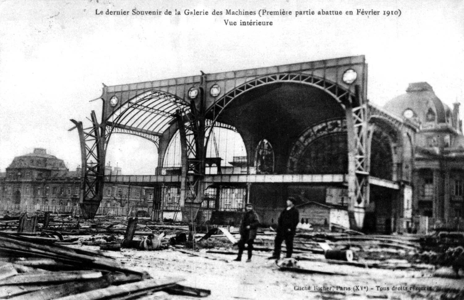 The image shows what is left of the Galerie des Machines ca. mid 1910